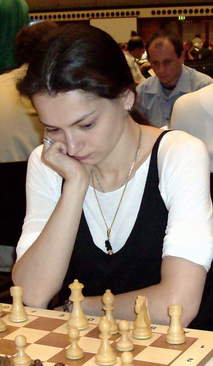 Alexandra Kosteniuk at the Chess Classics 2008